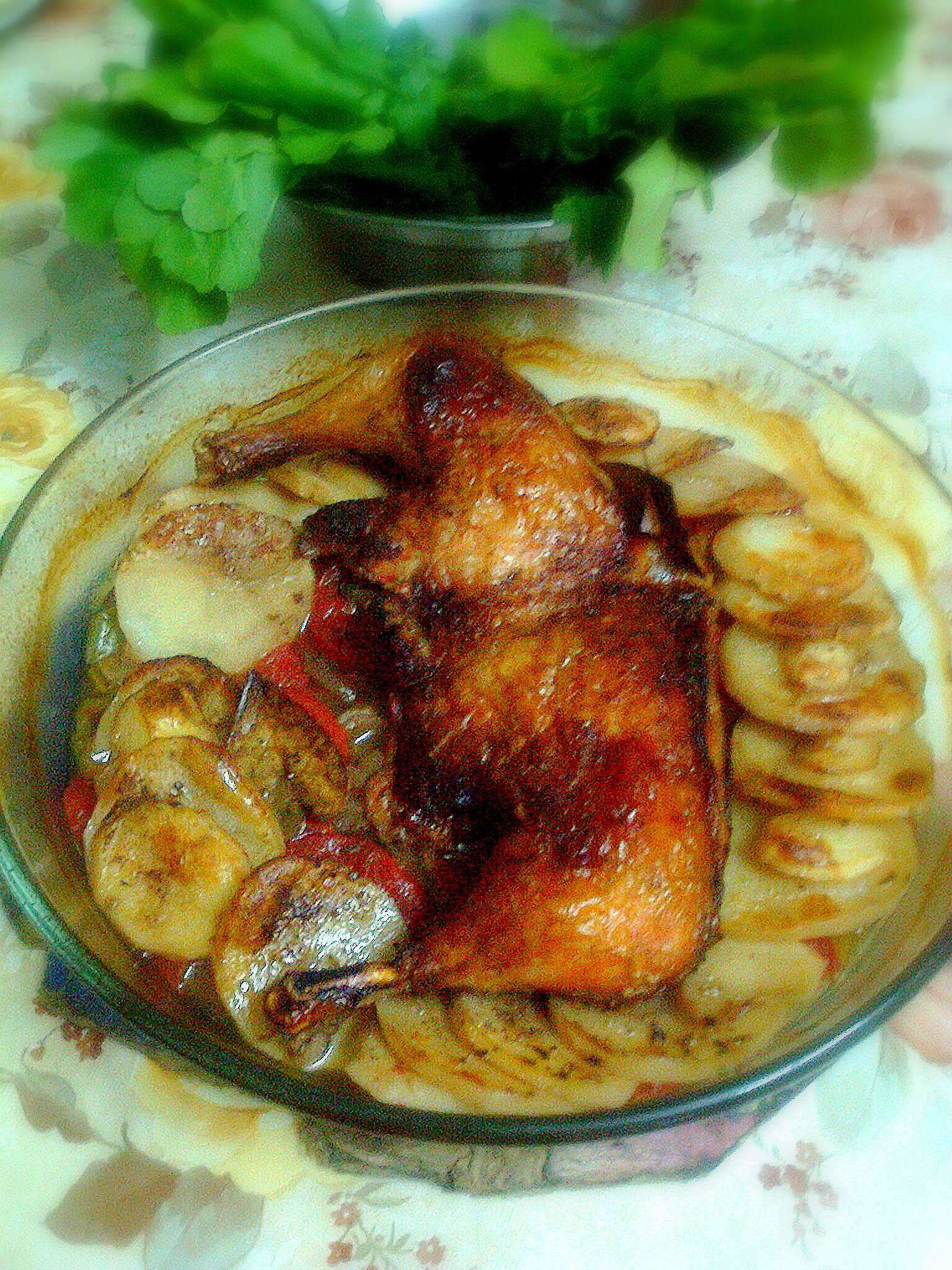 Roast chicken with baked potato This is an image of food from Egypt